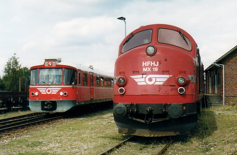 HFHJ class Lynette DMU and class MX locomotive in Frederiksværk, Danmark